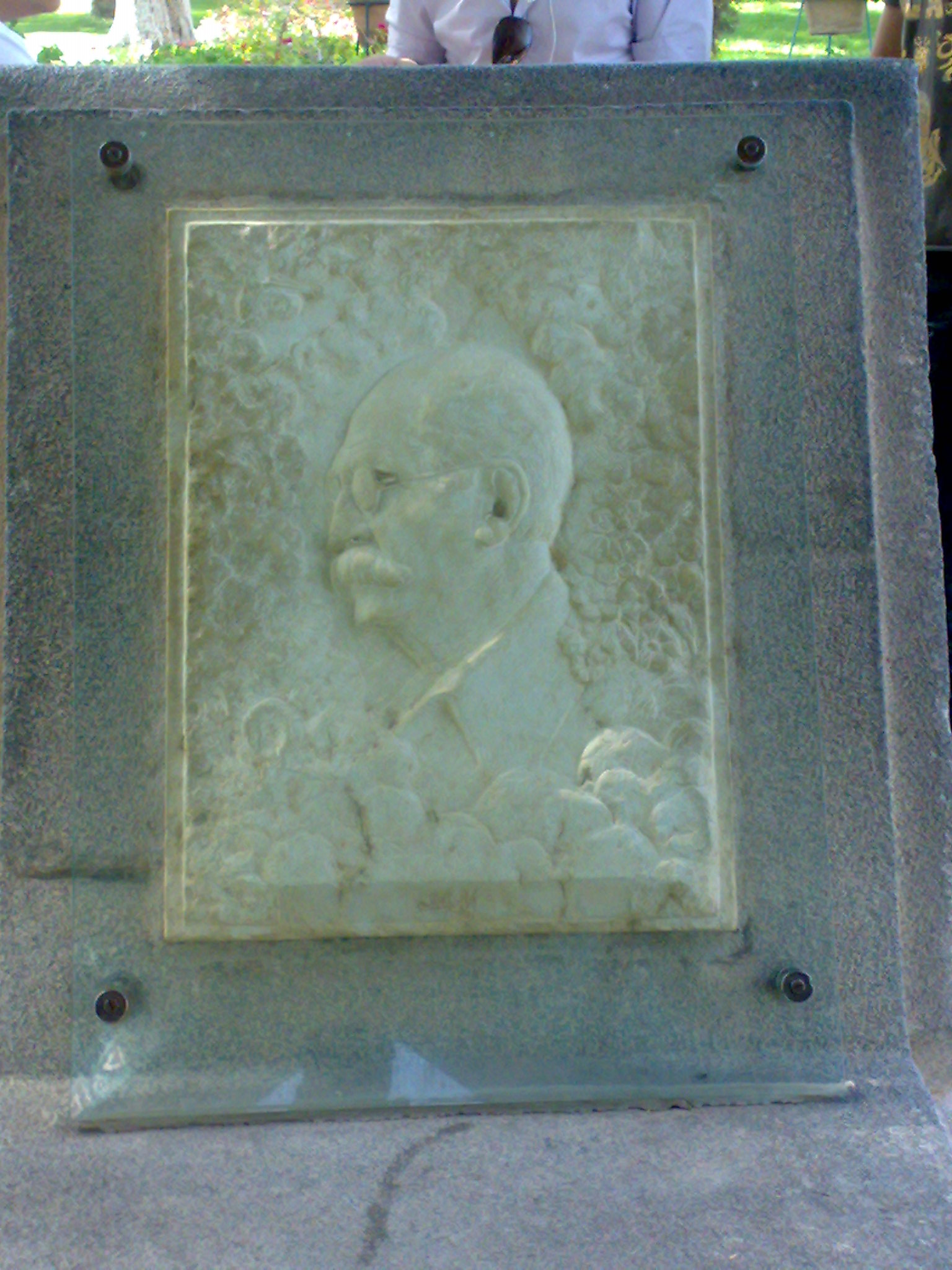 Kamal-ol-molk's self-portrait beyond his tomb in Neishabour, Khorasan, Iran